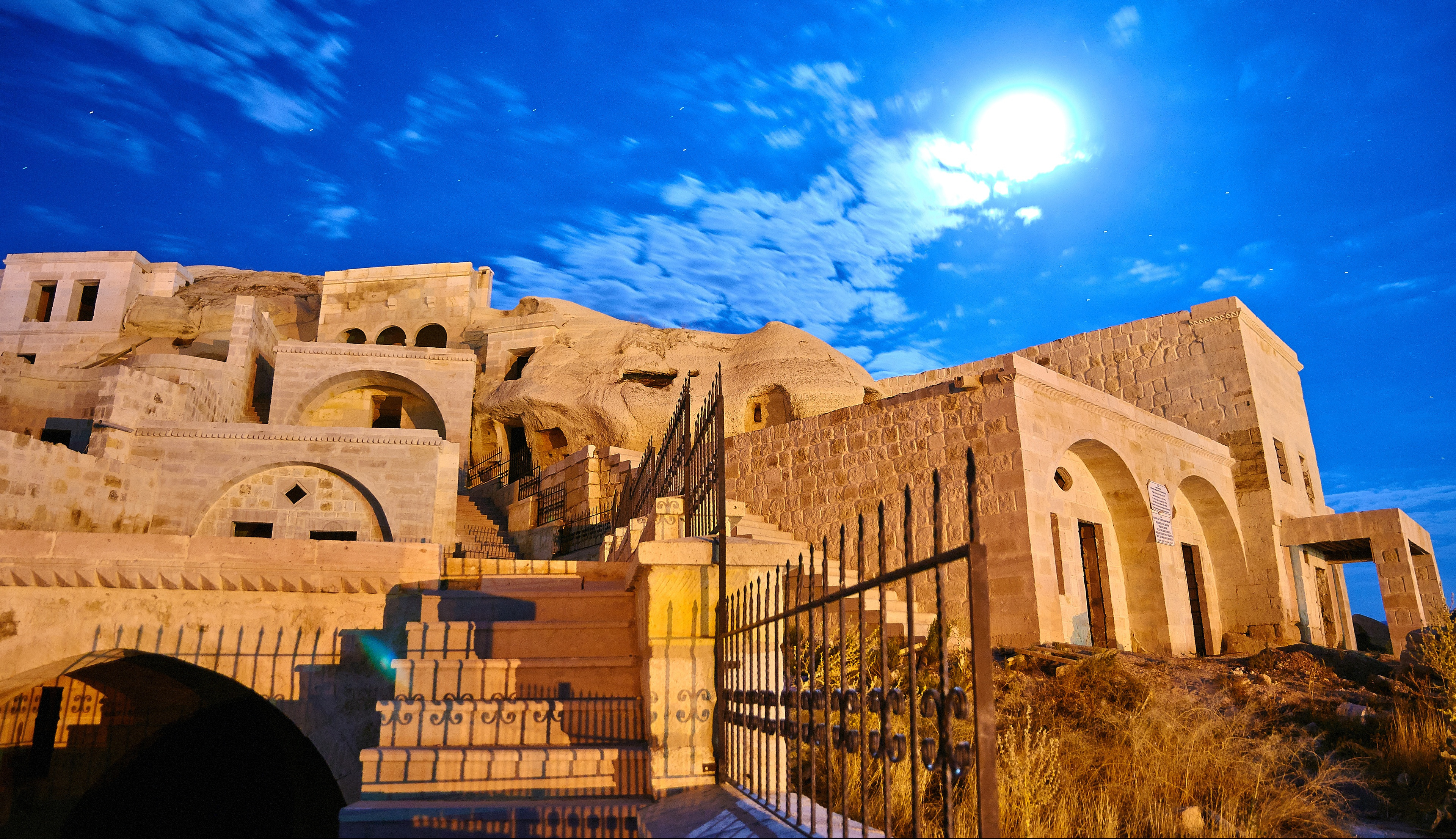 view of some buildings in the night